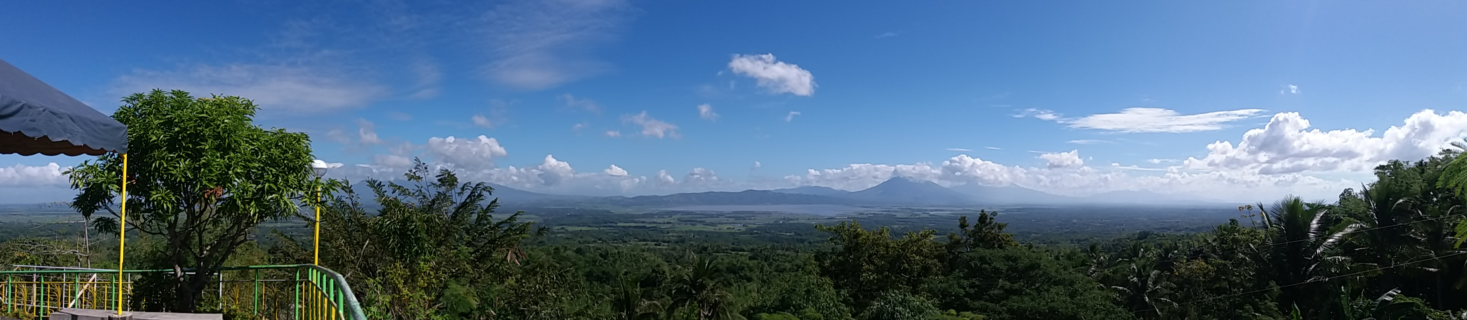 Panoramic view from tanawan Bula Camarines Sur.